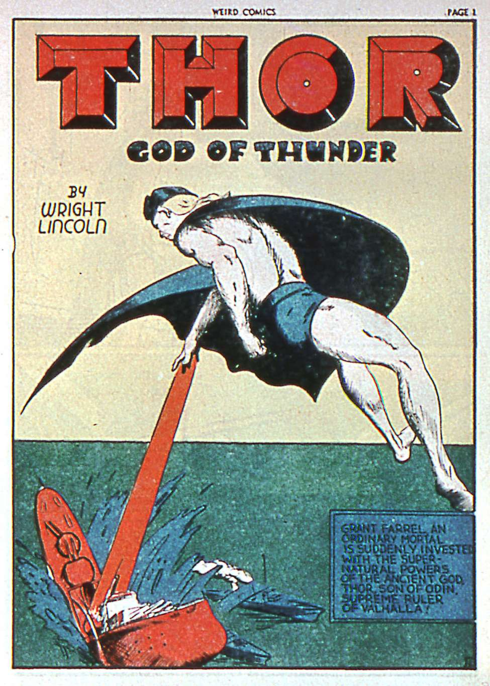 Splash page featuring Thor God of Thunder, Weird Comics #1, Fox Feature Syndicate, April 1940.